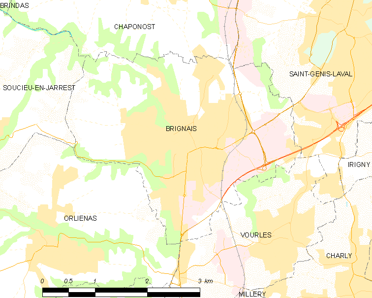 Map of French municipality